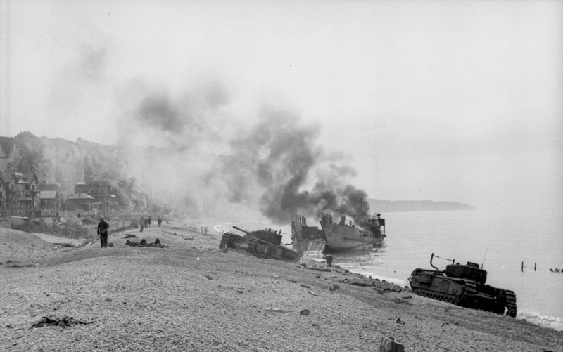 British Landing Craft on Beach at Dieppe - August 1942. Australian War Memorial description: The beach pictured during the landing by allied (mostly Canadian) air, naval and land forces against german defences at Dieppe. In the foreground are Churchill III tanks from the Canadian 14th Army Tank Battalion (The Calgary Regiment (Tank)) drowned (half submerged) during disembarkation, and in the background an LCT 5 No. 121 (Landing Craft, Tank) disembarks other Churchill tanks, under German fire. The tank (right) is named Calgary and is of C Squadron Headquarters, F Troop.